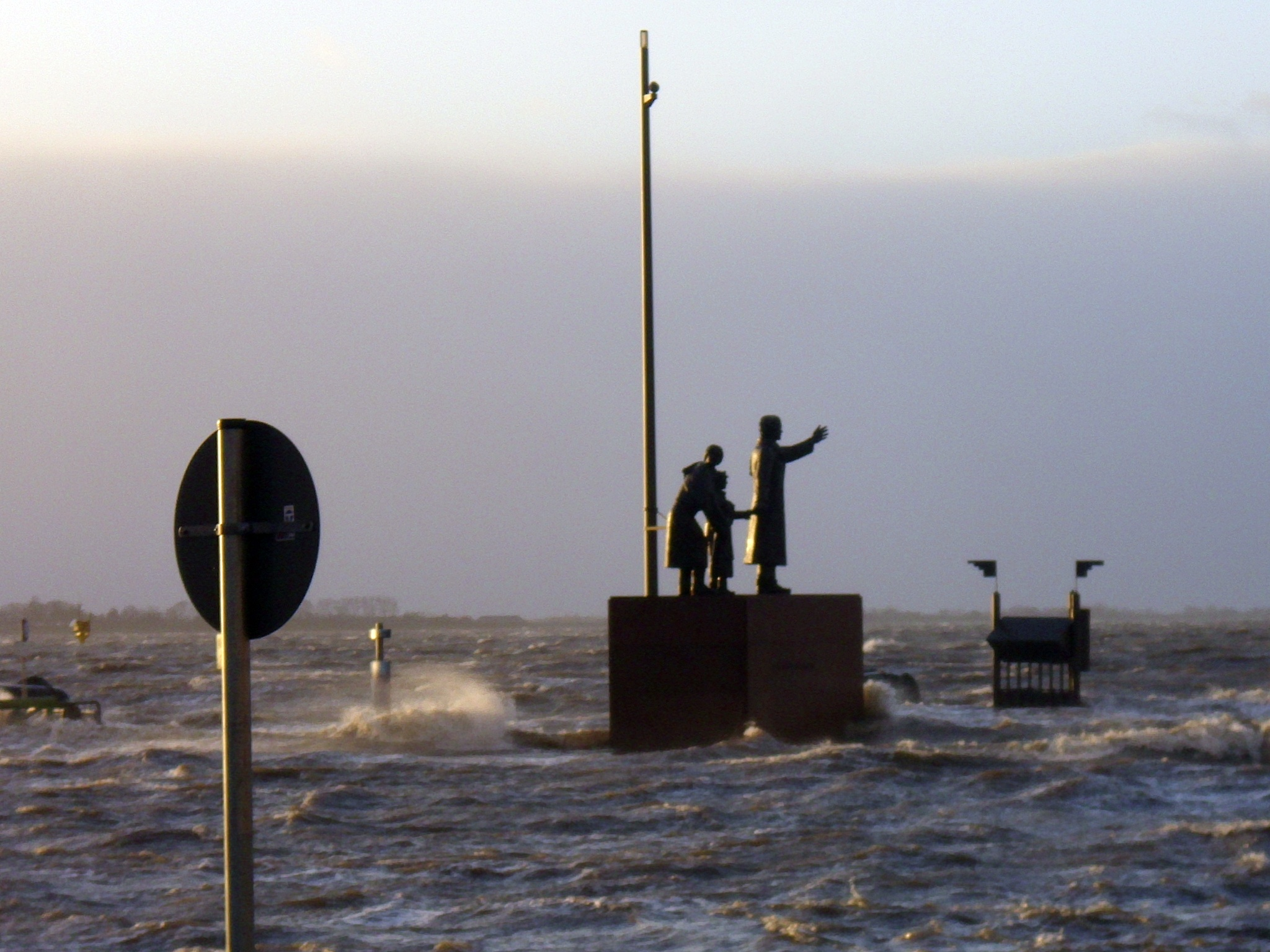 A monument to emigrants in Bremerhaven on a square near the Weser river, flooded by a storm tide caused by cyclone Bodil